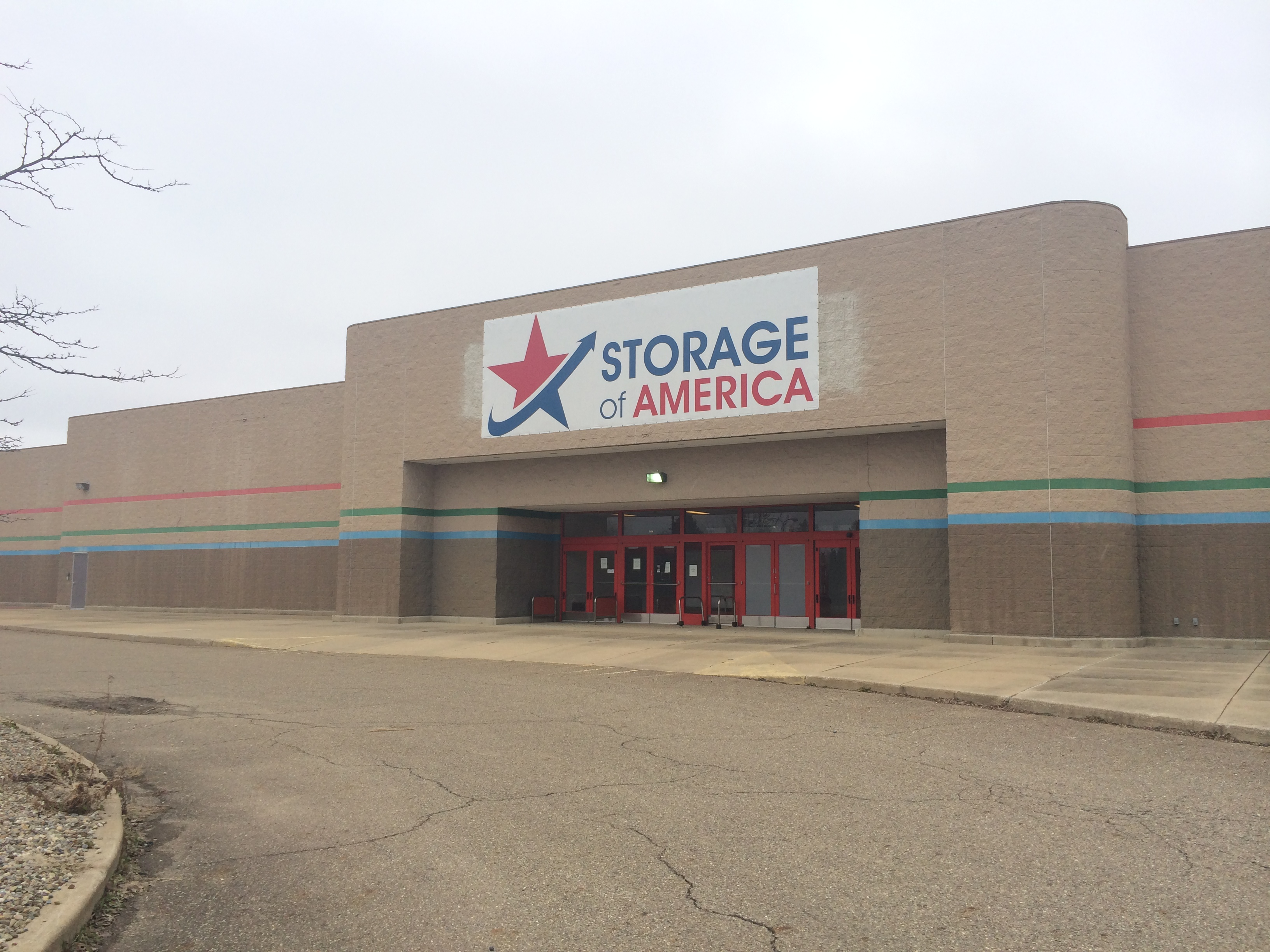 Storage of America (former Target) at Rolling Acres Mall, Akron, OH, on March 29th, 2014. This business closed sometime in 2017.